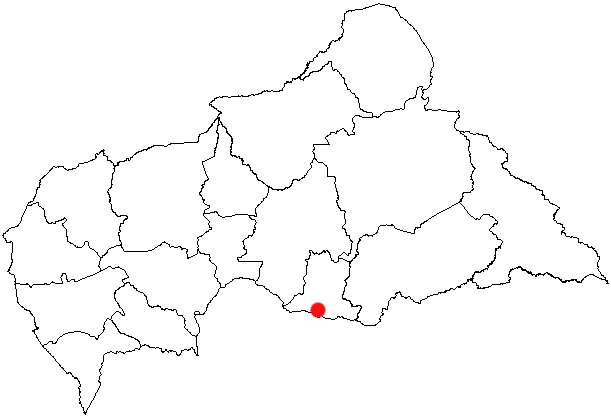 Mobaye, Central African Republic Location Map; created with the GIMP. Made by User:Acntx.